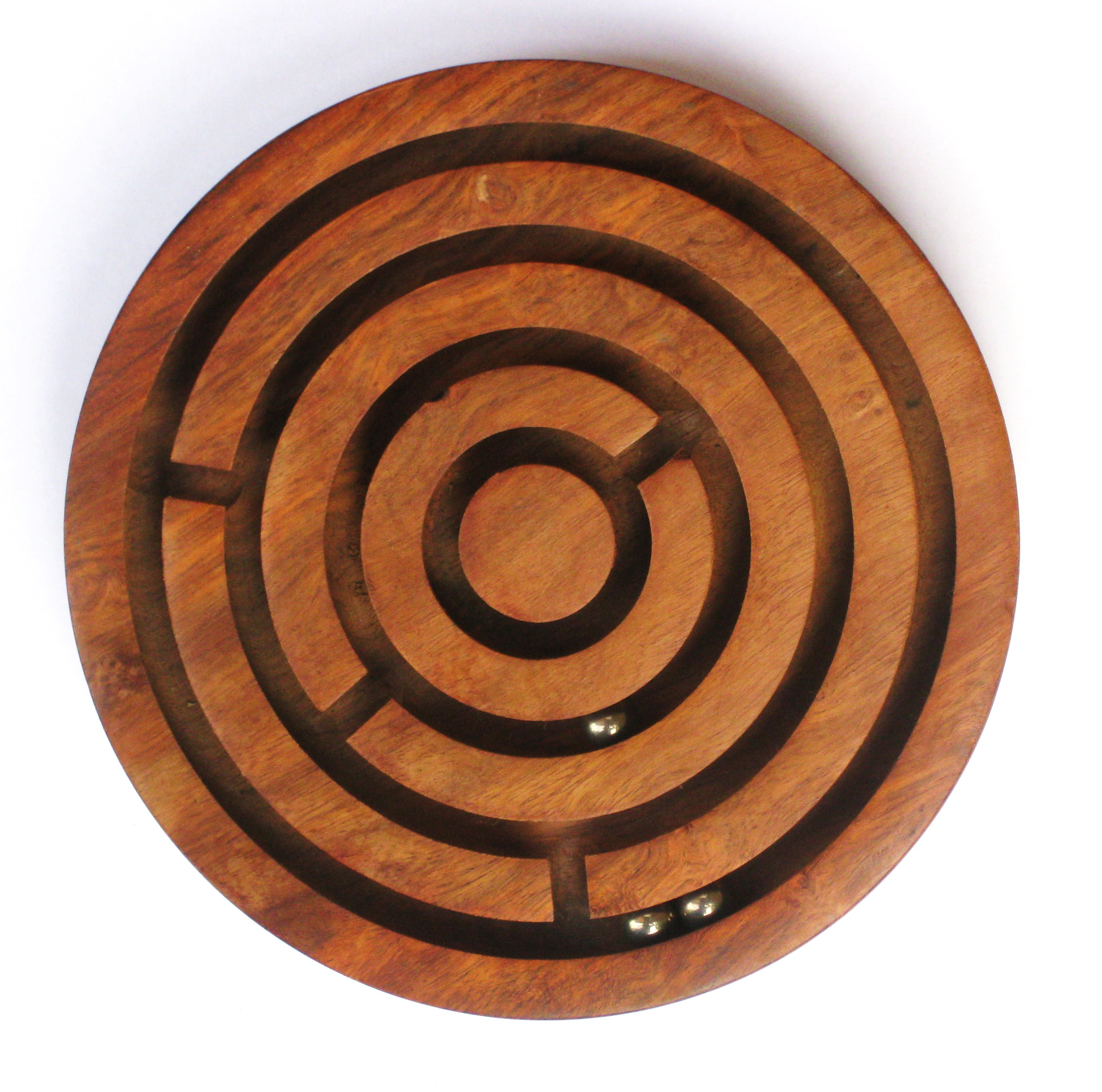 A circular wooden maze with three ball bearings. An identical item appears to have been for sale here: "15.0 cm Diam. x 2.0 cm H, Weight: 0.20 kg, Sheesham wood and marbles, Made in India, Wood game, 'Labyrinth Intrigue', Concentric circles create mysterious paths that offer intellectual challenges. The objective is to move the sheesham wood base slightly sideways or backwards and forwards so the marbles can roll through the gaps and arrive at the center. From Suresh Garg."